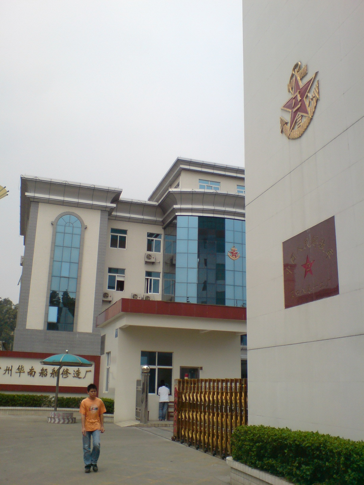 PLA's Factory No. 4801, in Changzhou Island, Guangzhou